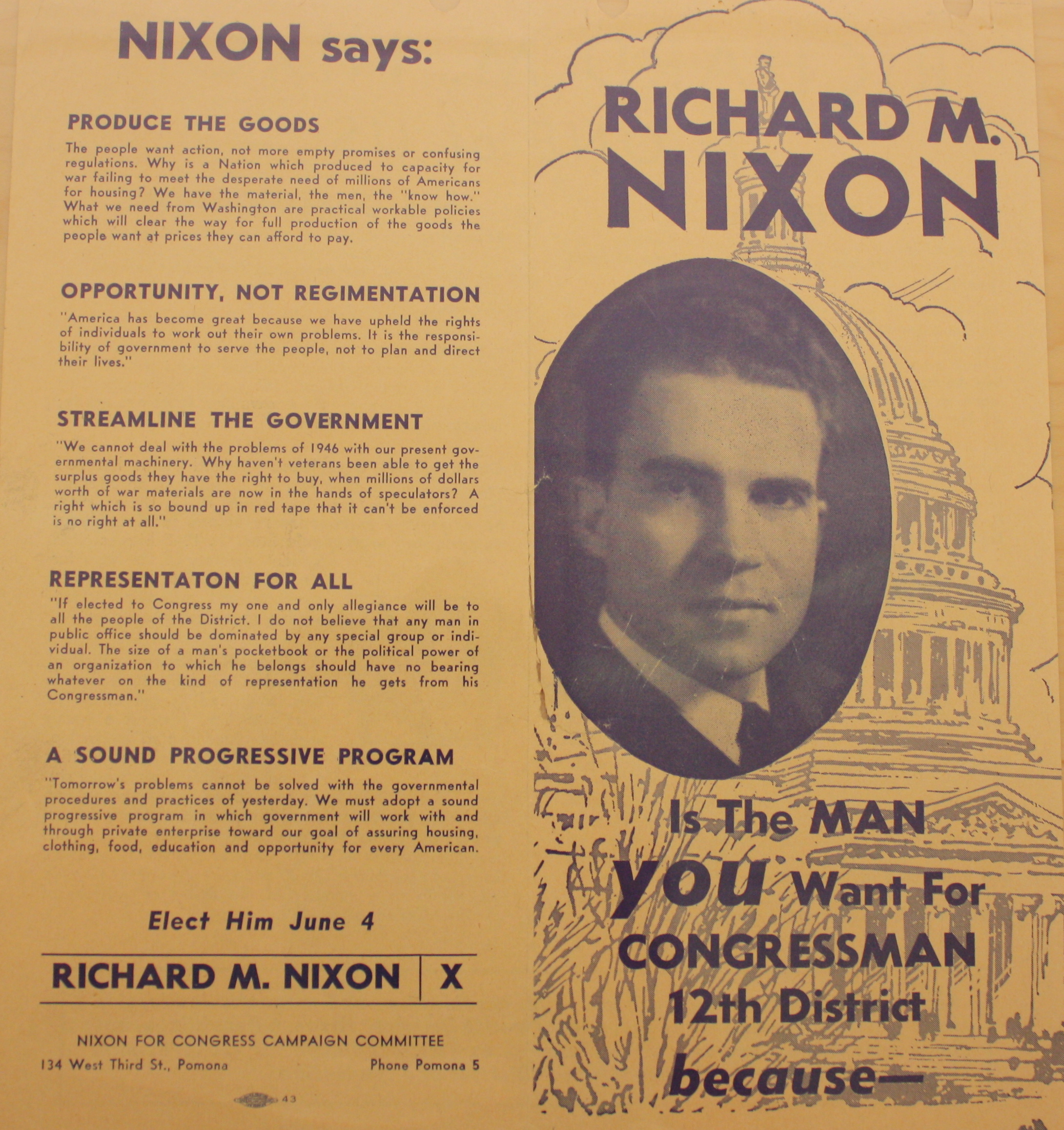 Flyer/handout for Nixon for House campaign, 1946. Both sides examined, no copyright notice.